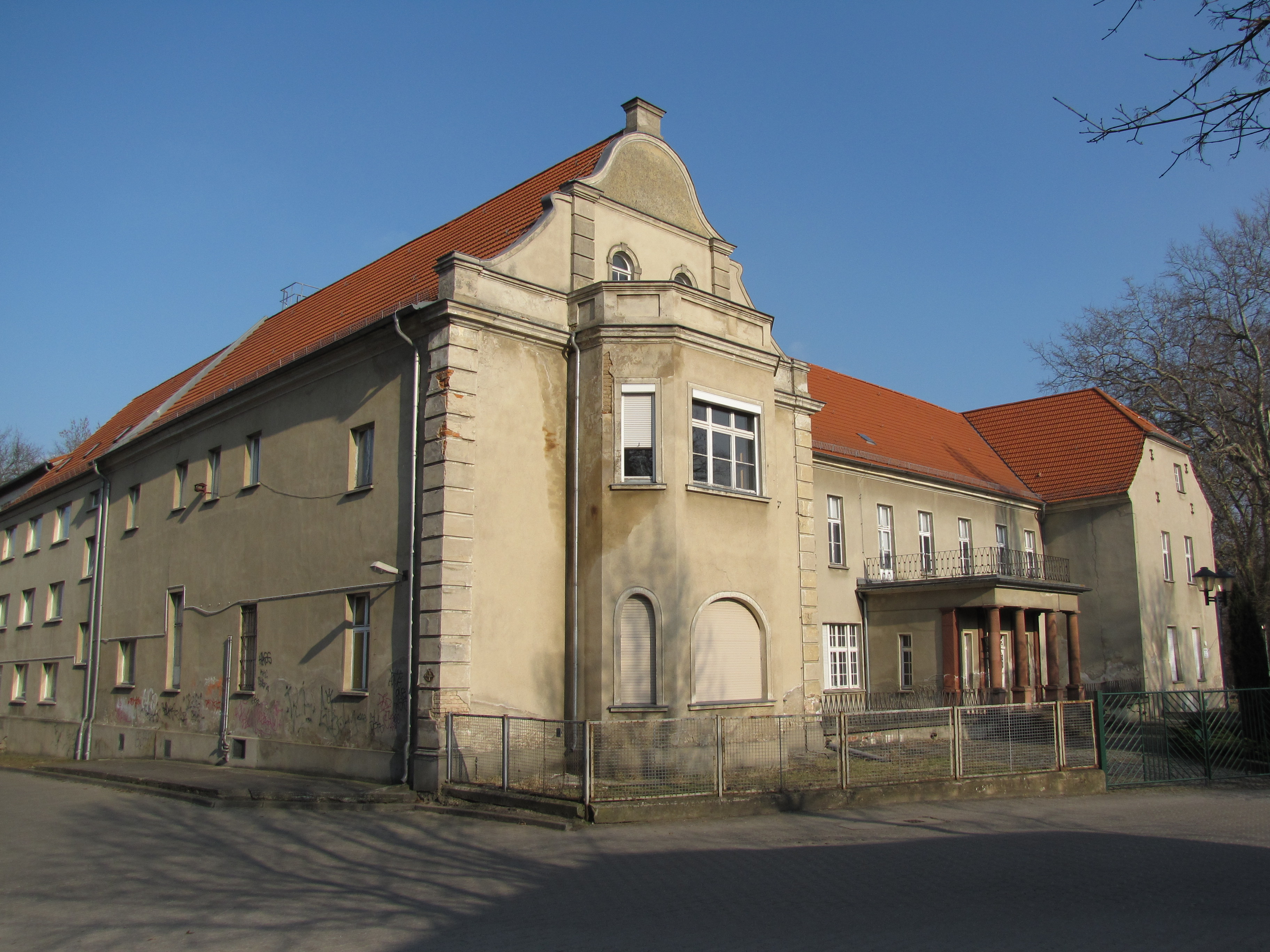 Schloss Zossen, Stadt Zossen, Brandenburg